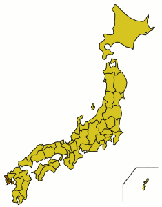 Small map of Nagasaki prefecture.